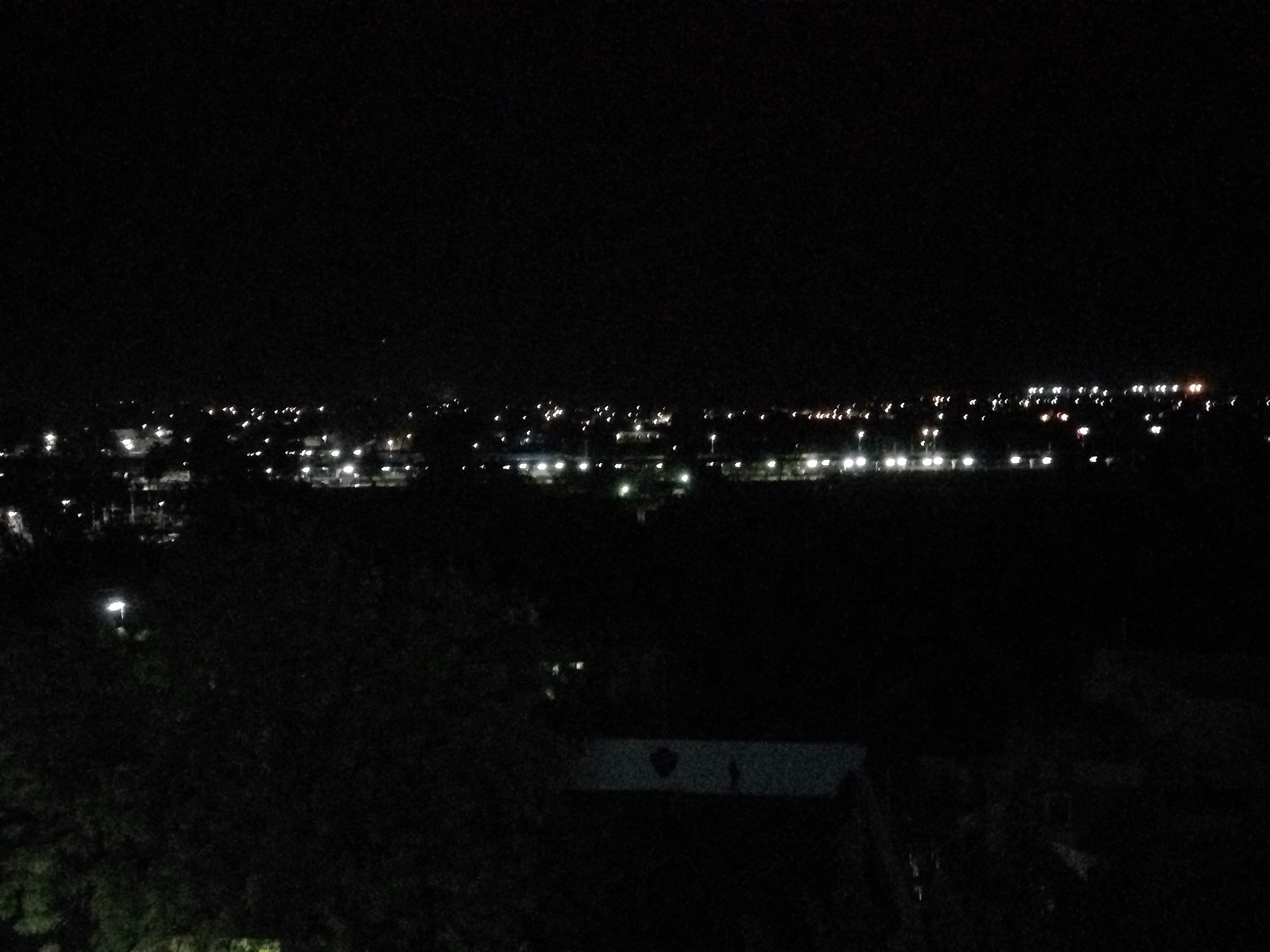 Image shows aerial view of Akola Junction taken from Hotel Jasnagara's 5th floor